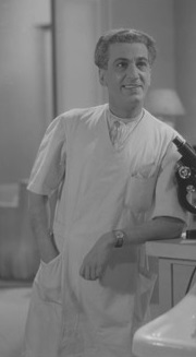 César Ratti-actor argentino